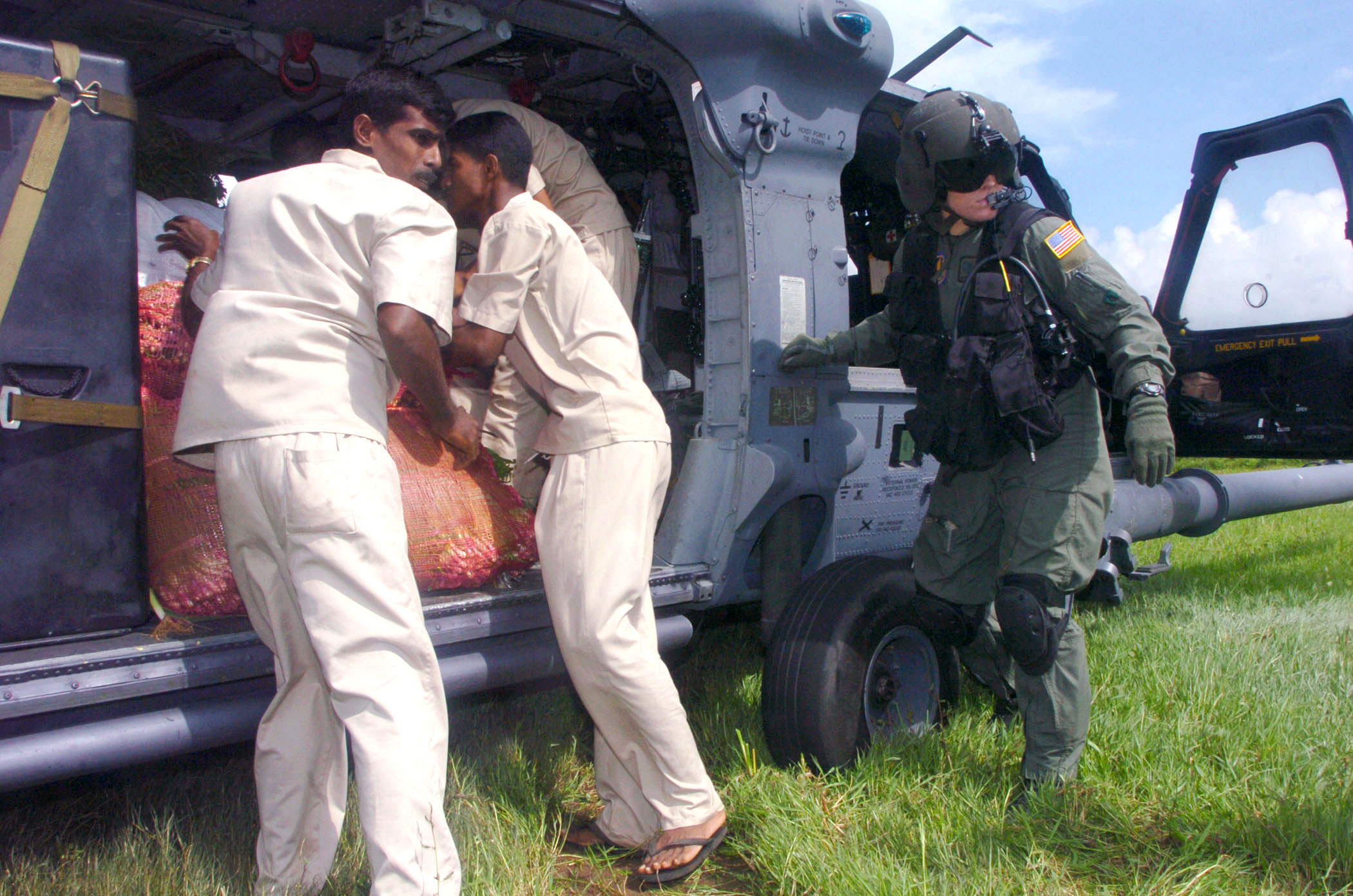 DAMBULA, Sri Lanka -- Airman 1st Class Emily Starcher helps Sri Lankan relief workers unload vegetables from an HH-60G Pave Hawk helicopter during an Operation Unified Assistance mission here. She is a flight engineer assigned to the 33rd Rescue Squadron at Kadena Air Base, Japan. The Kadena Airmen are helping bring food, medicines and supplies to people affected by the Dec. 26 tsunamis.